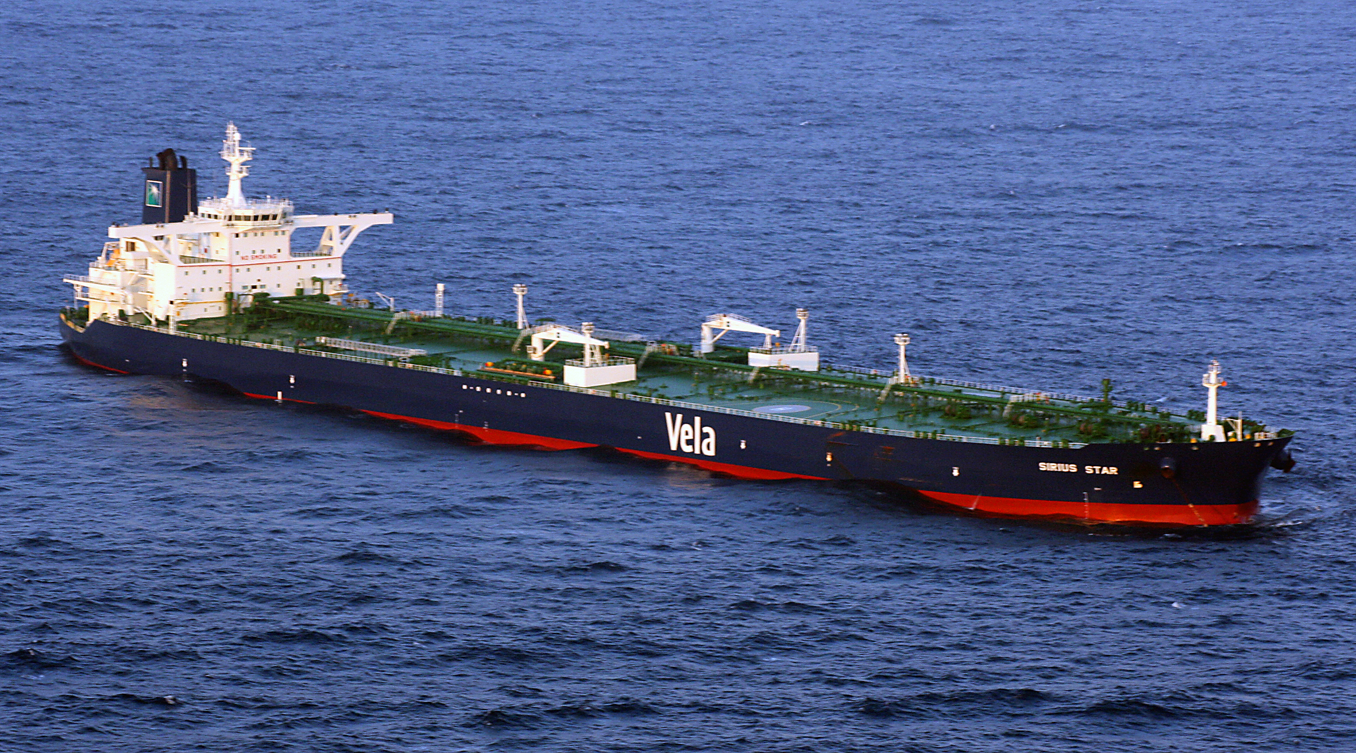 The Liberian-flagged oil tanker MV Sirius Star is at anchor Wednesday, Nov. 19, 2008 off the coast of Somalia. The Saudi-owned very large crude carrier was hijacked by Somali pirates Nov. 15 about 450 nautical miles off the coast of Kenya and forced to proceed to anchorage near Harardhere, Somalia. Indian Ocean. 081119-N-0075S-001